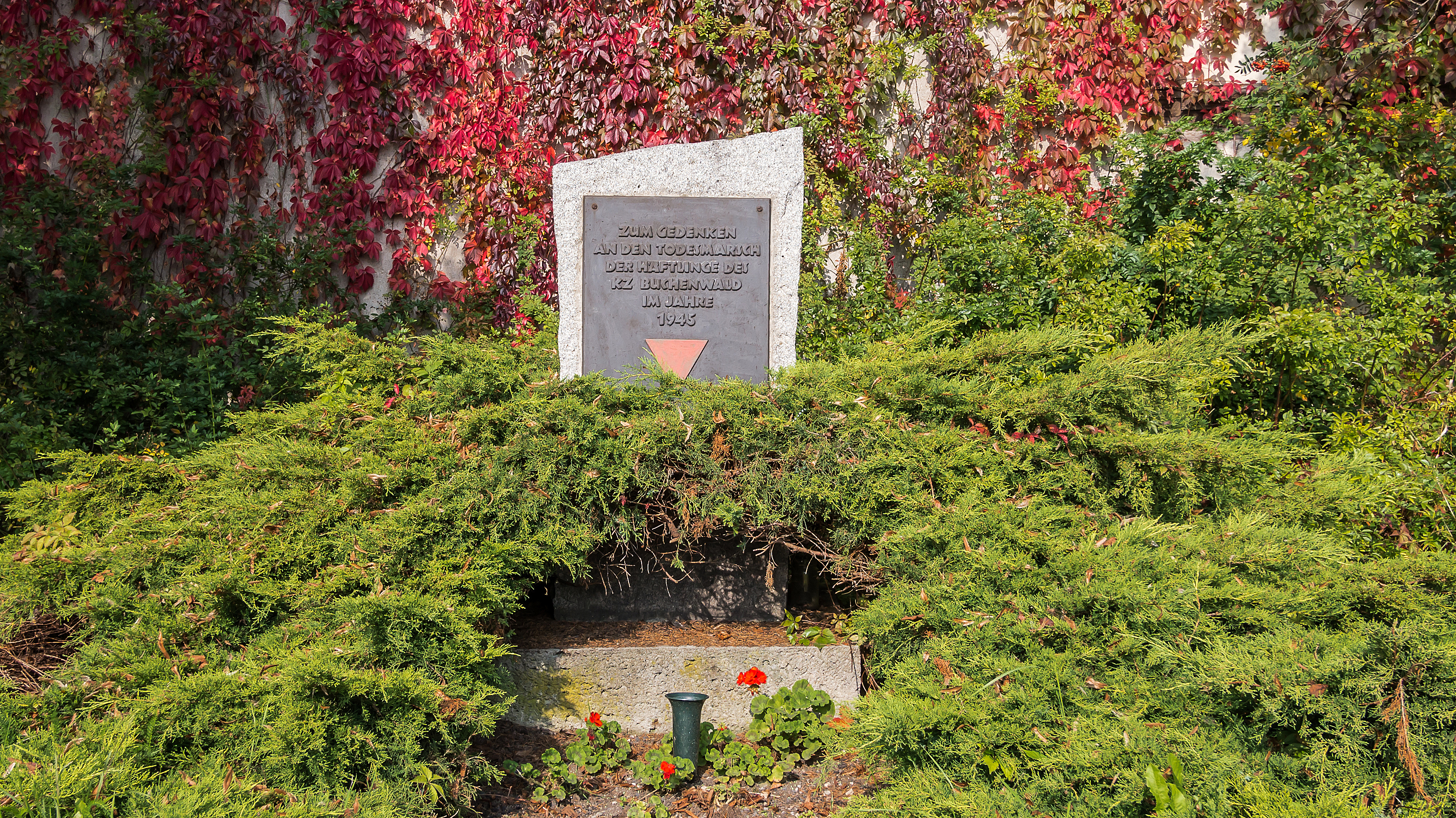 Saalfeld Schloßstraße Gedenkstein "Todesmarsch der Buchenwald-Häftlinge"